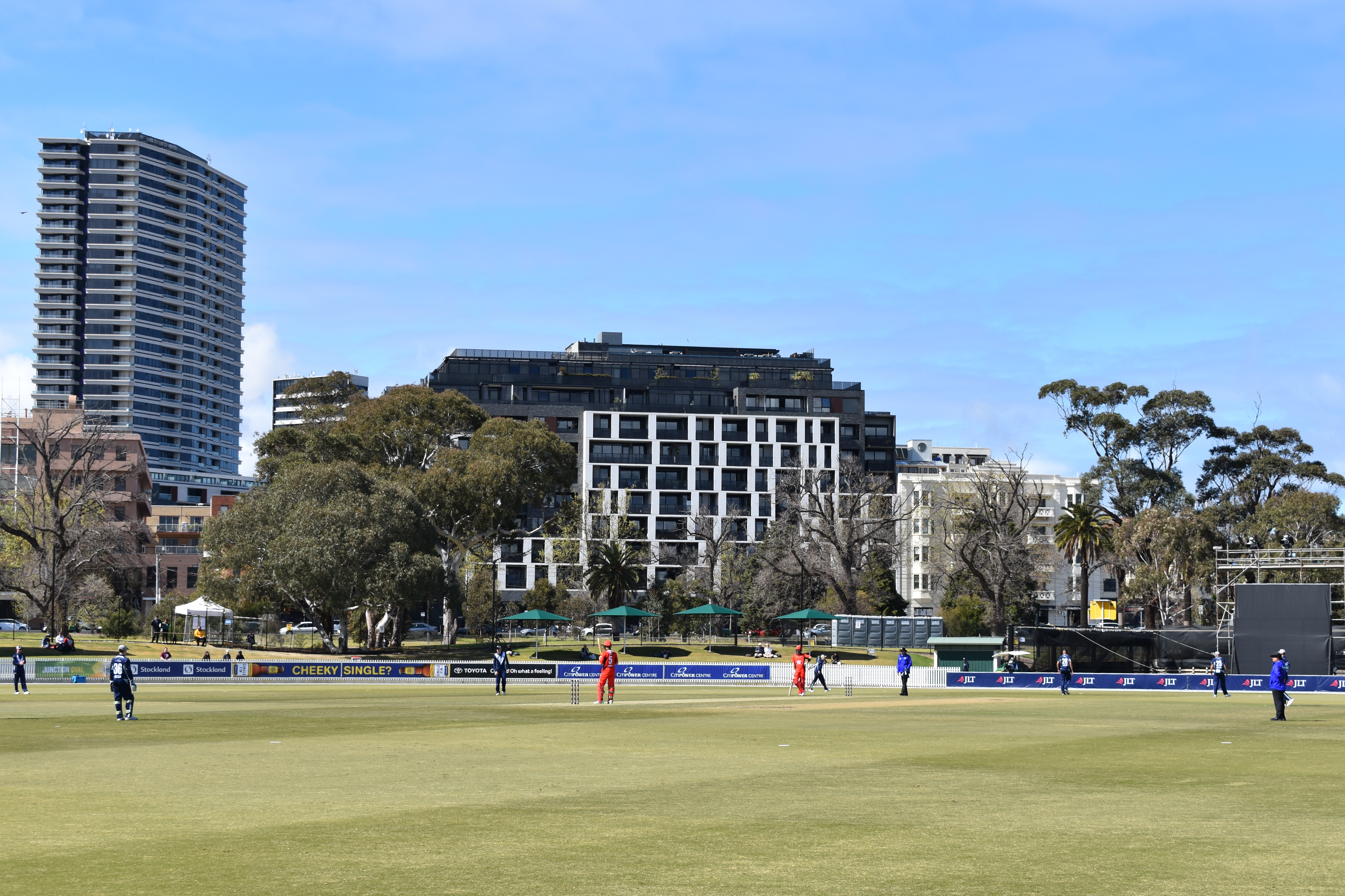 Victoria cricket team vs South Australia cricket team at the Junction Oval in St. Kilda, Victoria on 30 September 2018